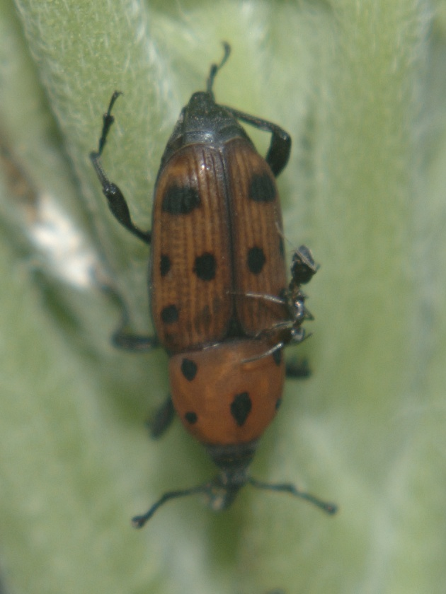 Ironweed Curculio, Rhodobaenus tredecimpunctatus, on the stem of a sunflower (Helianthus annuus cv. 'Mammoth'), Santa Cruz, New Mexico. It ignored the ant. Thanks to Brad Barnd at for confirming identification.